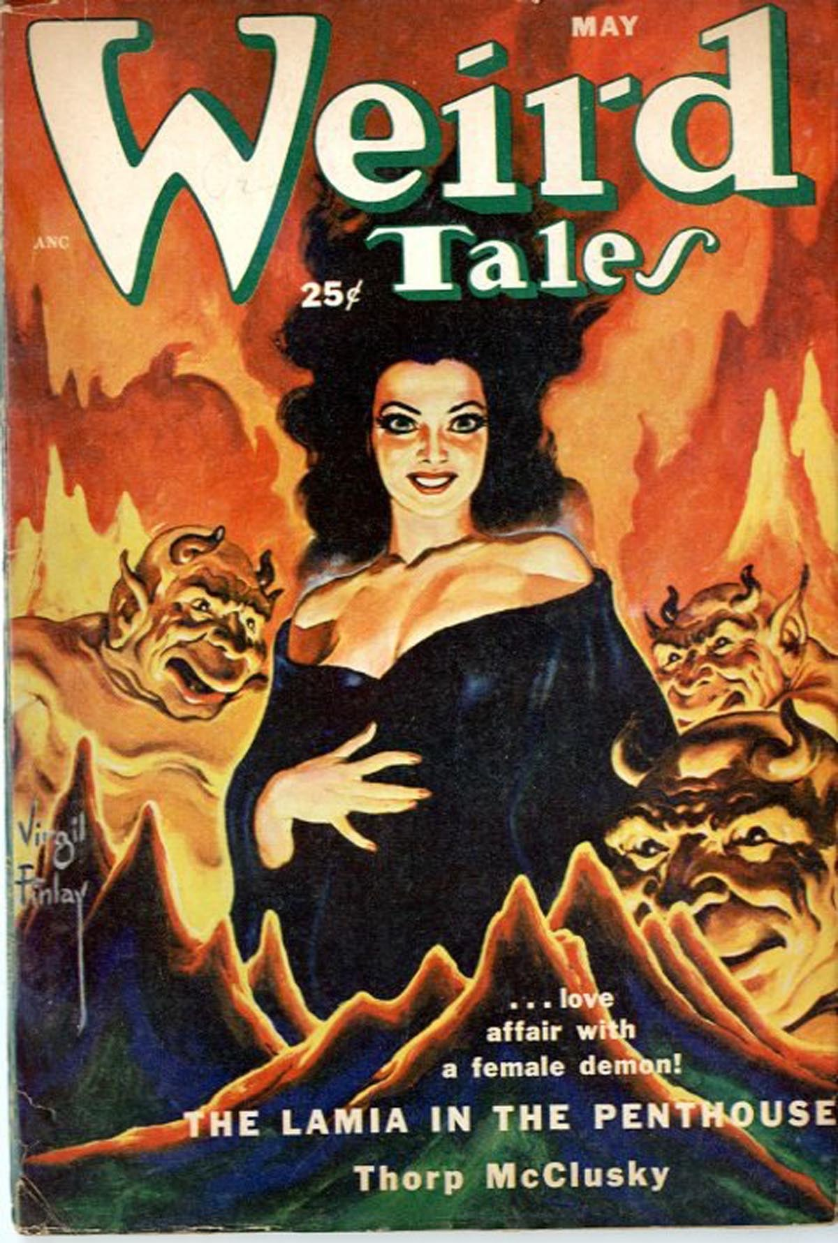 Cover of the pulp magazine Weird Tales (May 1952, volume 44, number 4) featuring "The Lamia in the Penthouse" by Thorp McClusky. Cover art by Virgil Finlay.